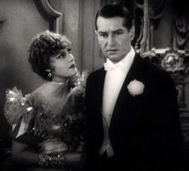 Jeanette MacDonald and Maurice Chevalier in the film The Merry Widow (1934) - trailer (cropped screenshot)